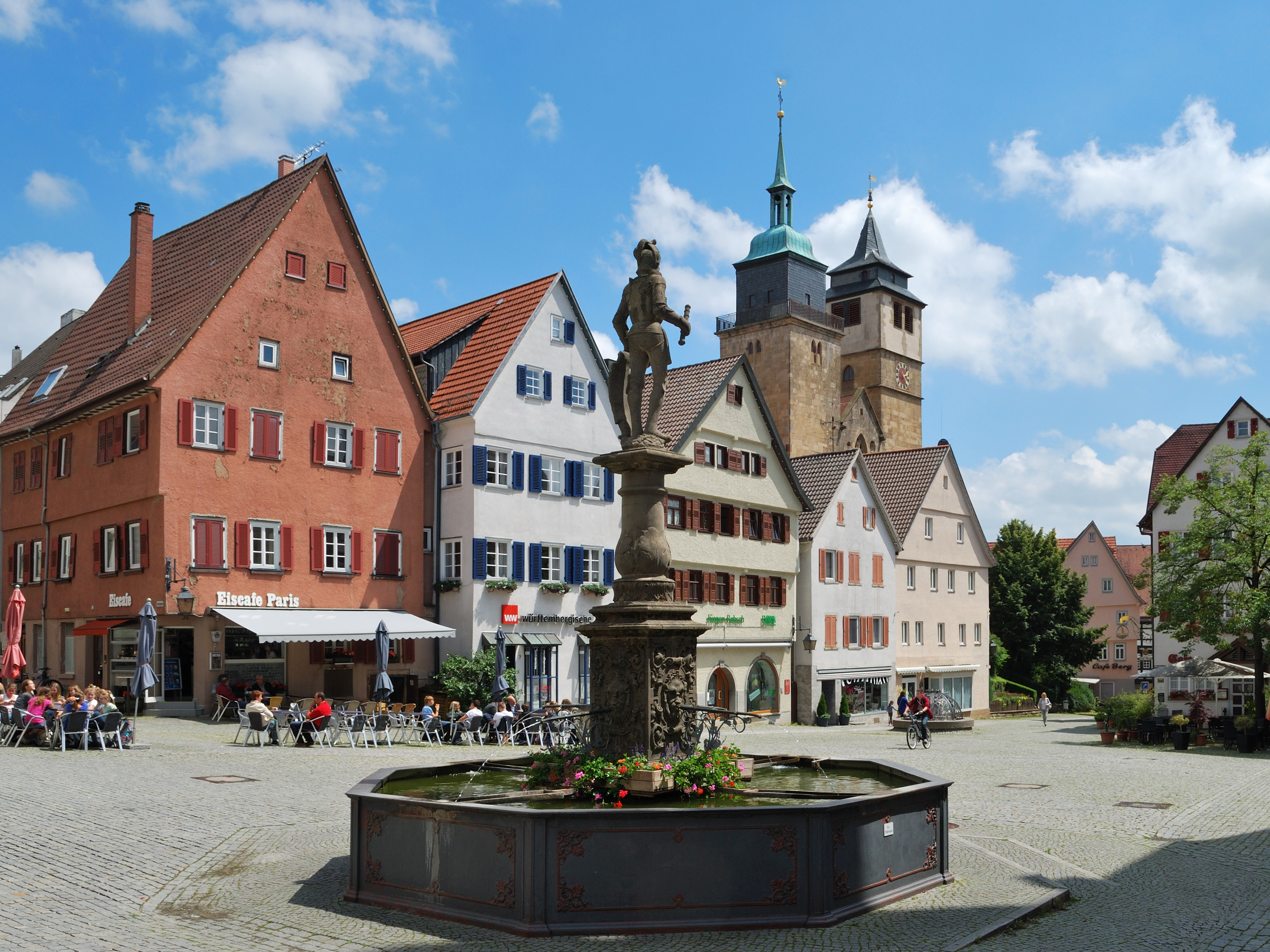 Market square in Markgröningen, German Federal State Baden-Württemberg.